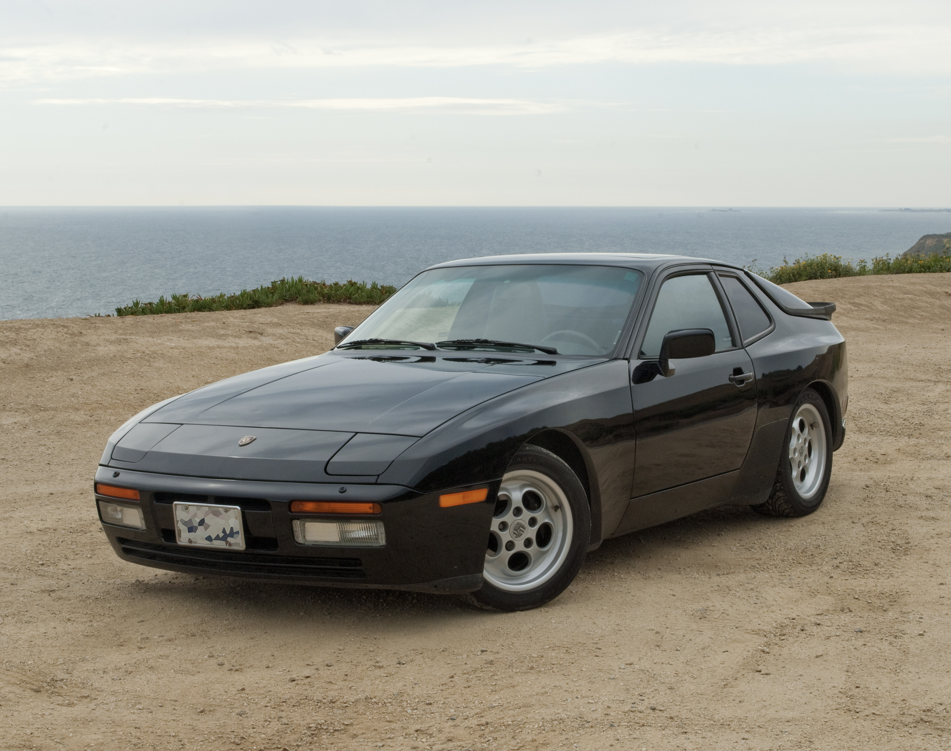 Stock 1986 Porsche 944 Turbo Coupe, overlooking the Pacific Ocean, off of US Highway 1